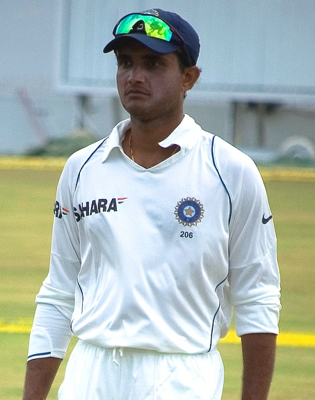 Sourav playing. Cropped picture of original